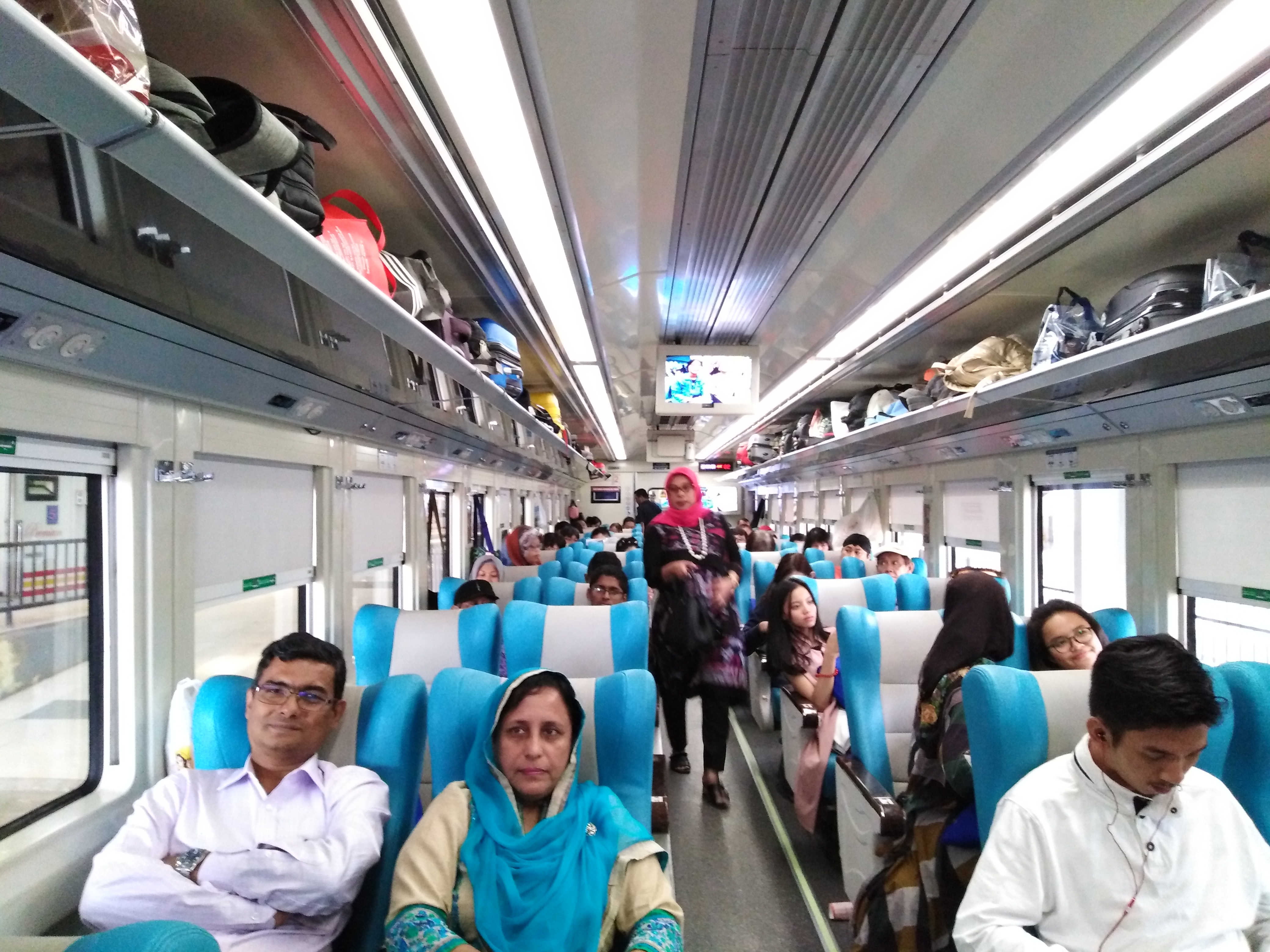 Inside of executive class of Argo Parahyangan